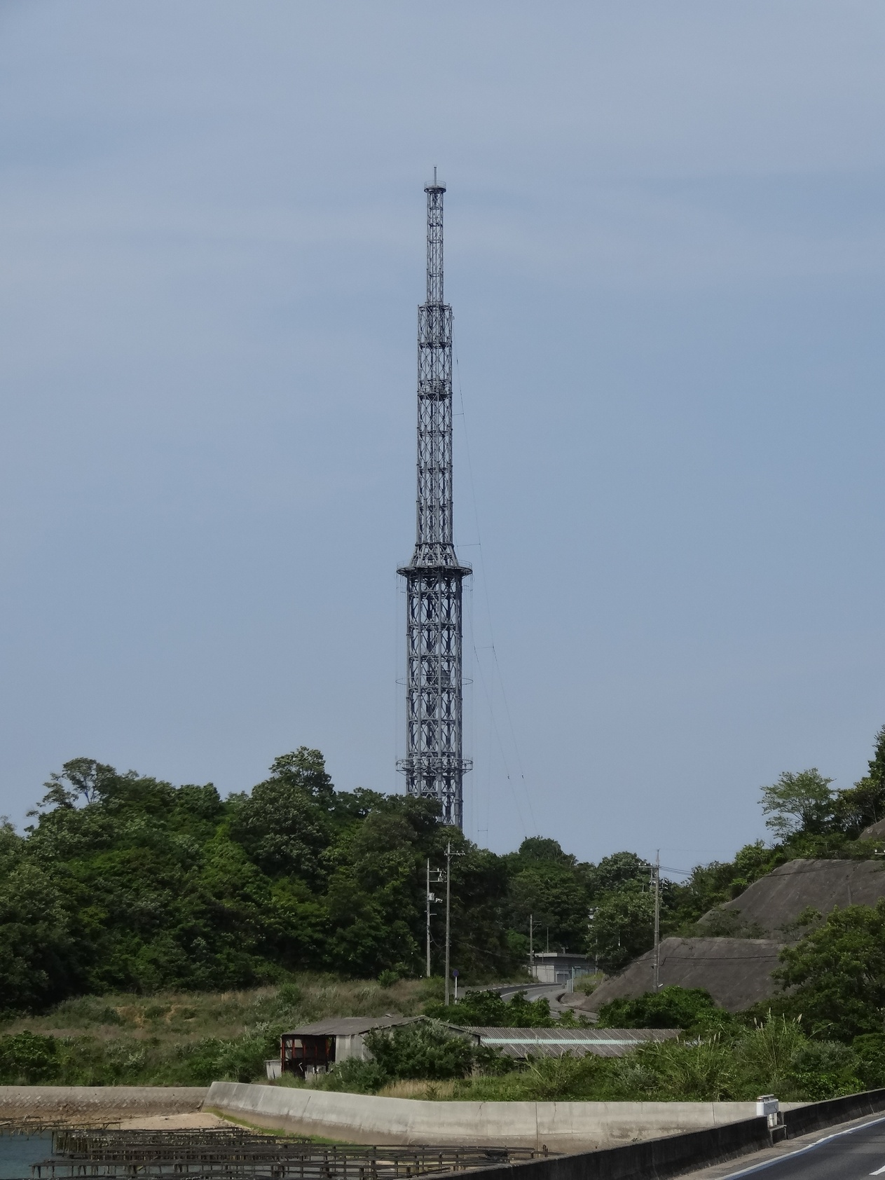 RCC Broadcasting (Chugoku Hoso) - Hiroshima (Okimi) Transmitting Station (JOER 1350kHz)